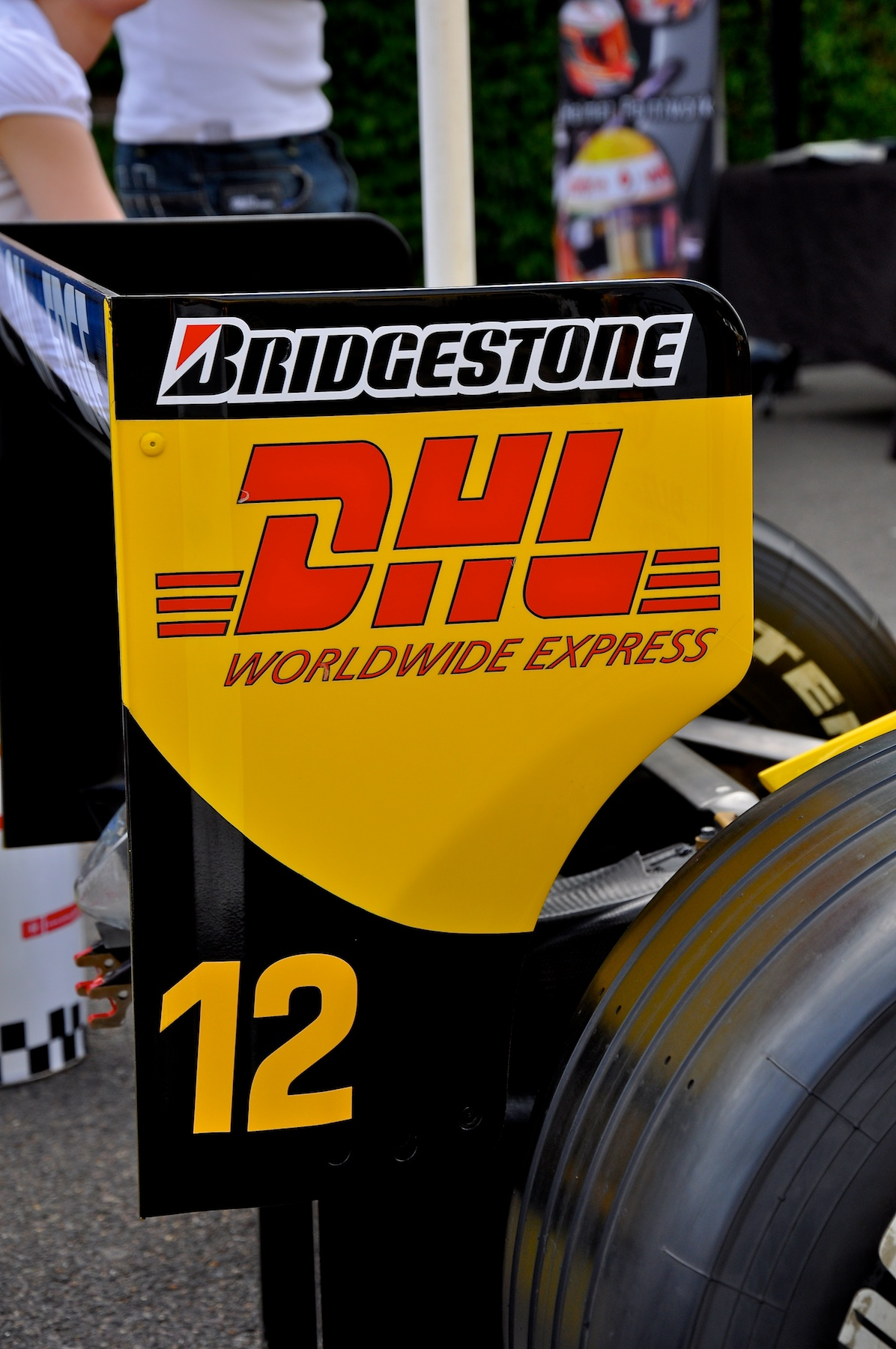 Jordan EJ11's rear wing exposed at 2010 Bury St-Edumunds Fesitval